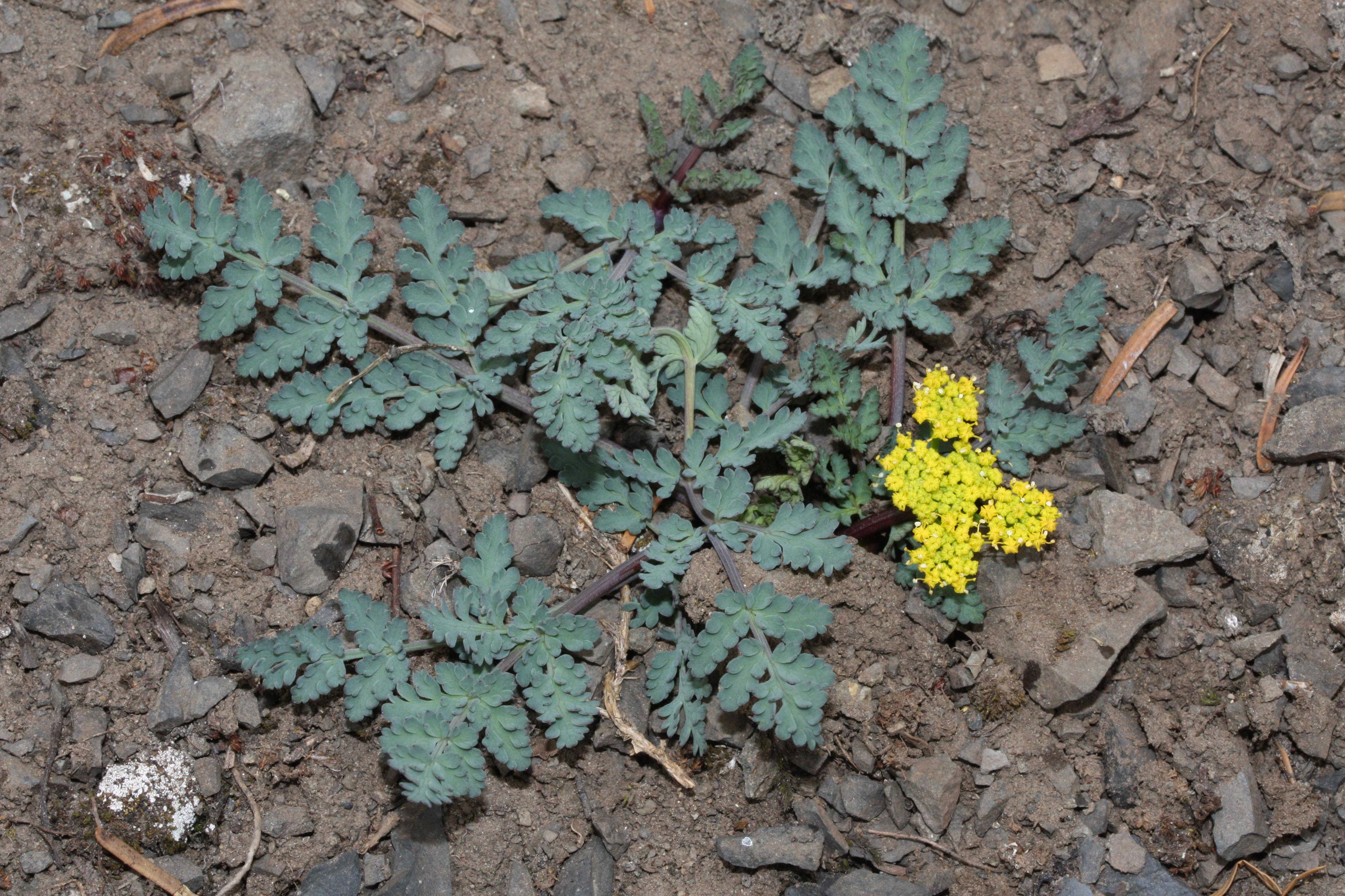 Cascade Desert-parsley, Coast Range Lomatium